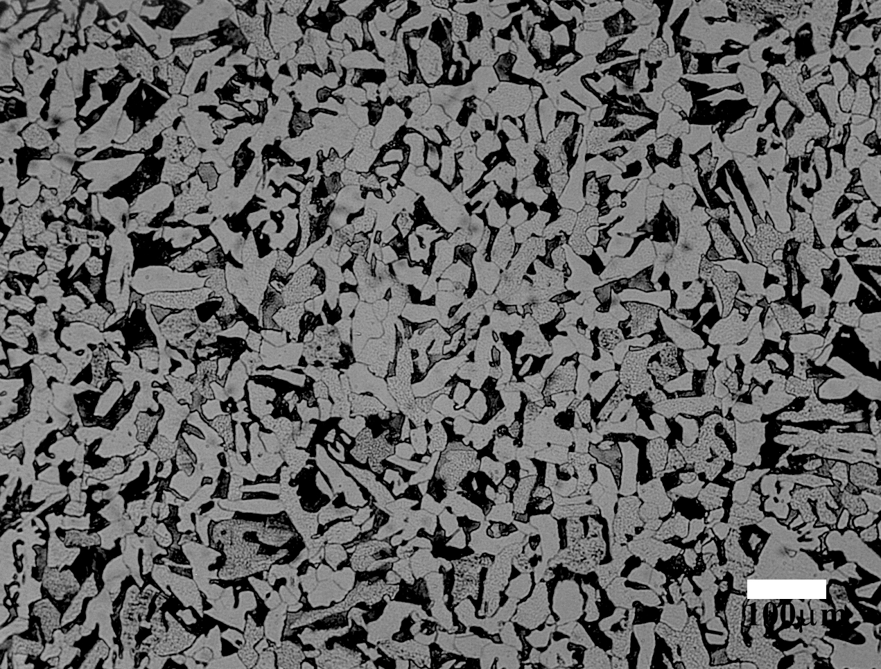 Ferrite (light gray) and perlite (dark gray) in carbon steel A285 (% wt.: 0.18 C, 0.43 Mn, 0.009 P, 0.026 S).